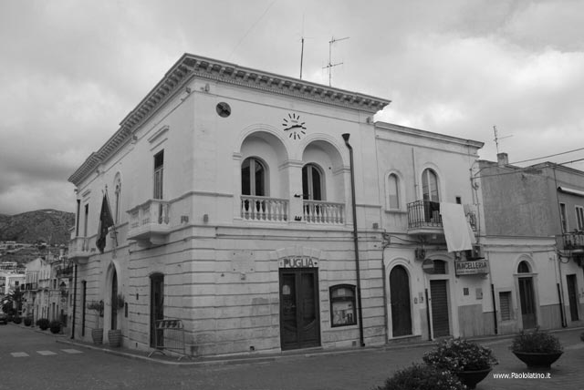 Mattinata "Palazzo Barretta " city maior